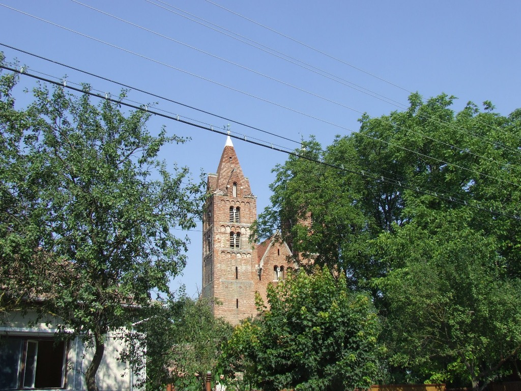 Reformat Church in Acâş, Satu Mare County, Romania